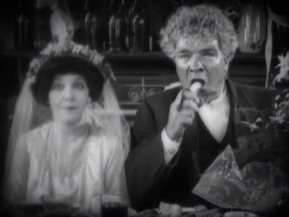 Scenography for the movie Greed (1924); ZaSu Pitts and Gibson Gowland.